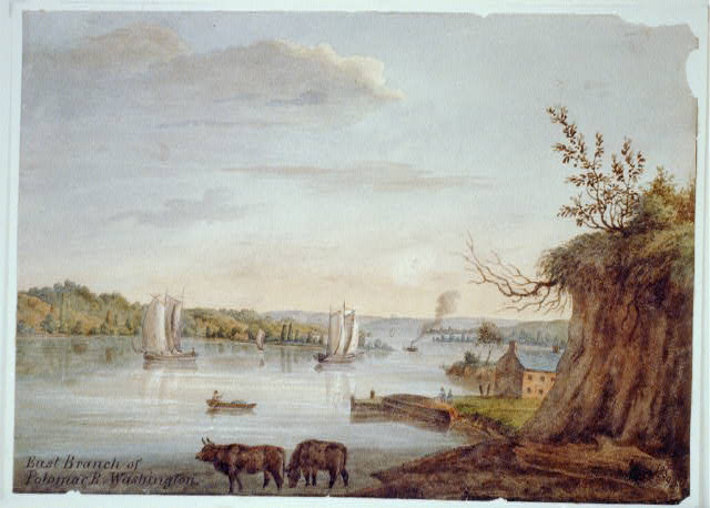 East branch of Potomac River (now called the Anacostia River) in Washington Abstract/medium: 1 drawing : watercolor over graphite underdrawing.